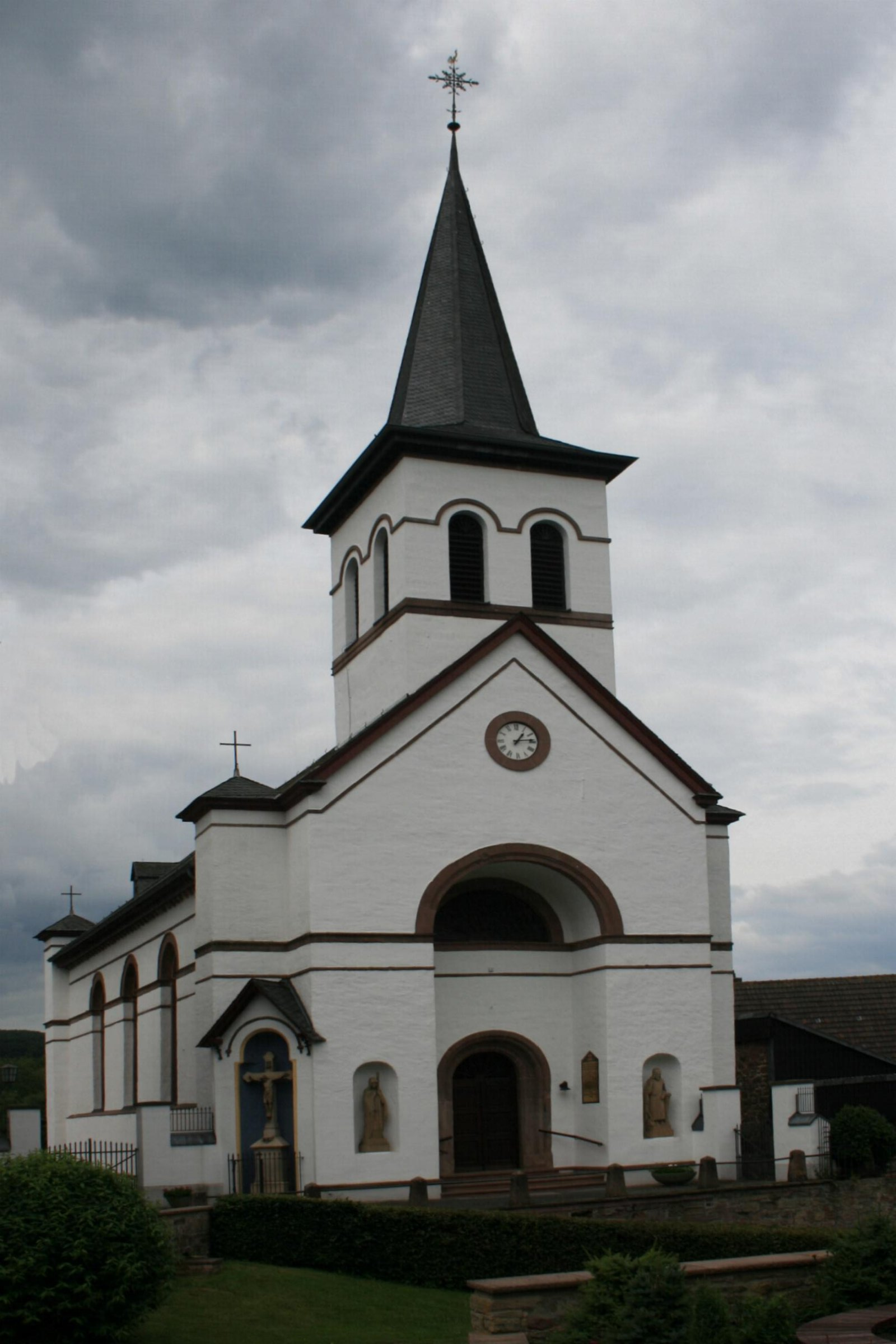 Cultural heritage monument No. 9 in Heimbach